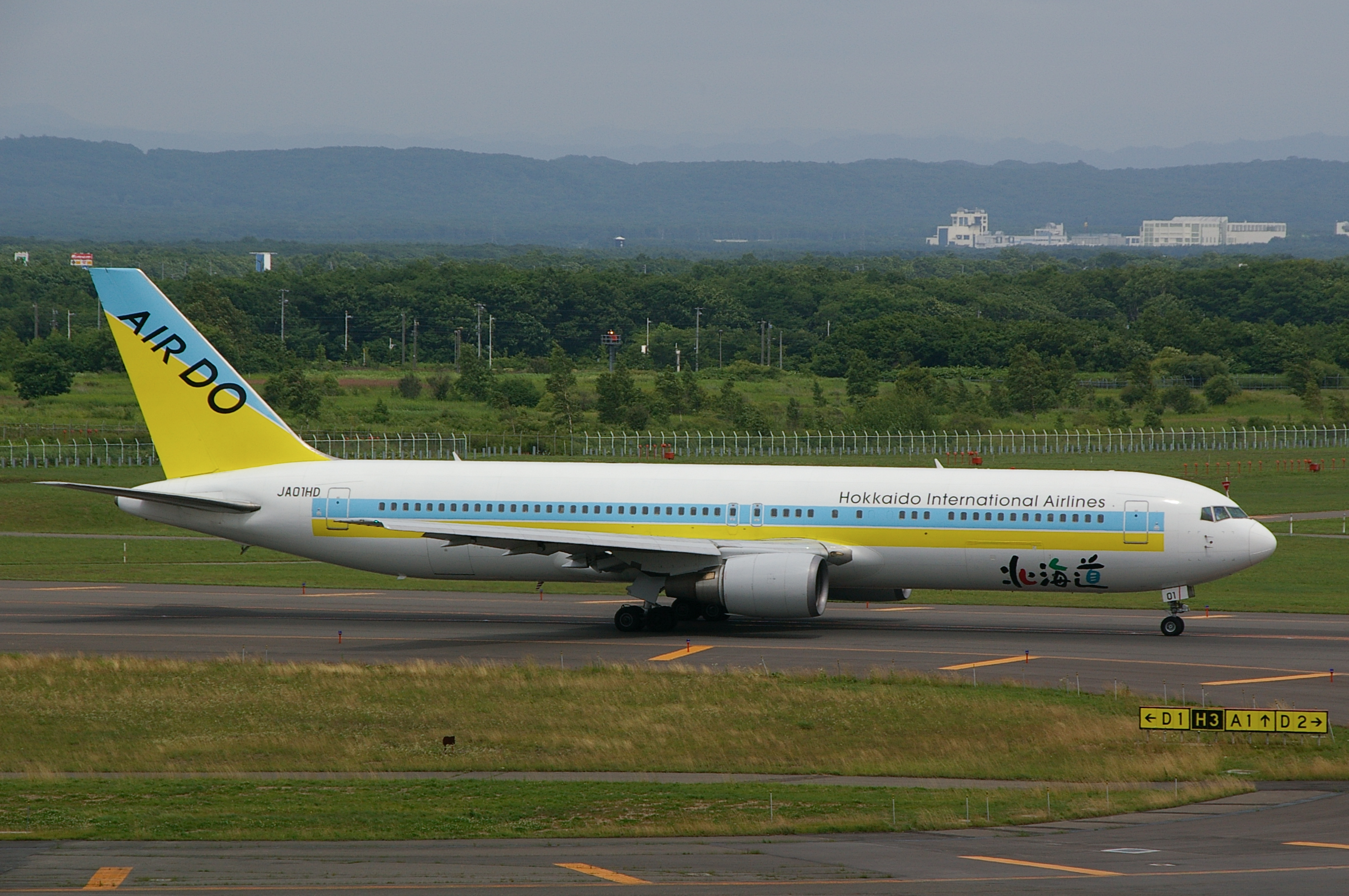 Photograph of Hokkaido International Airlines' Boeing 767-300ER (JA01HD) taken from the observation deck of New Chitose Airport passenger terminal building in Chitose, Hokkaido, Japan.